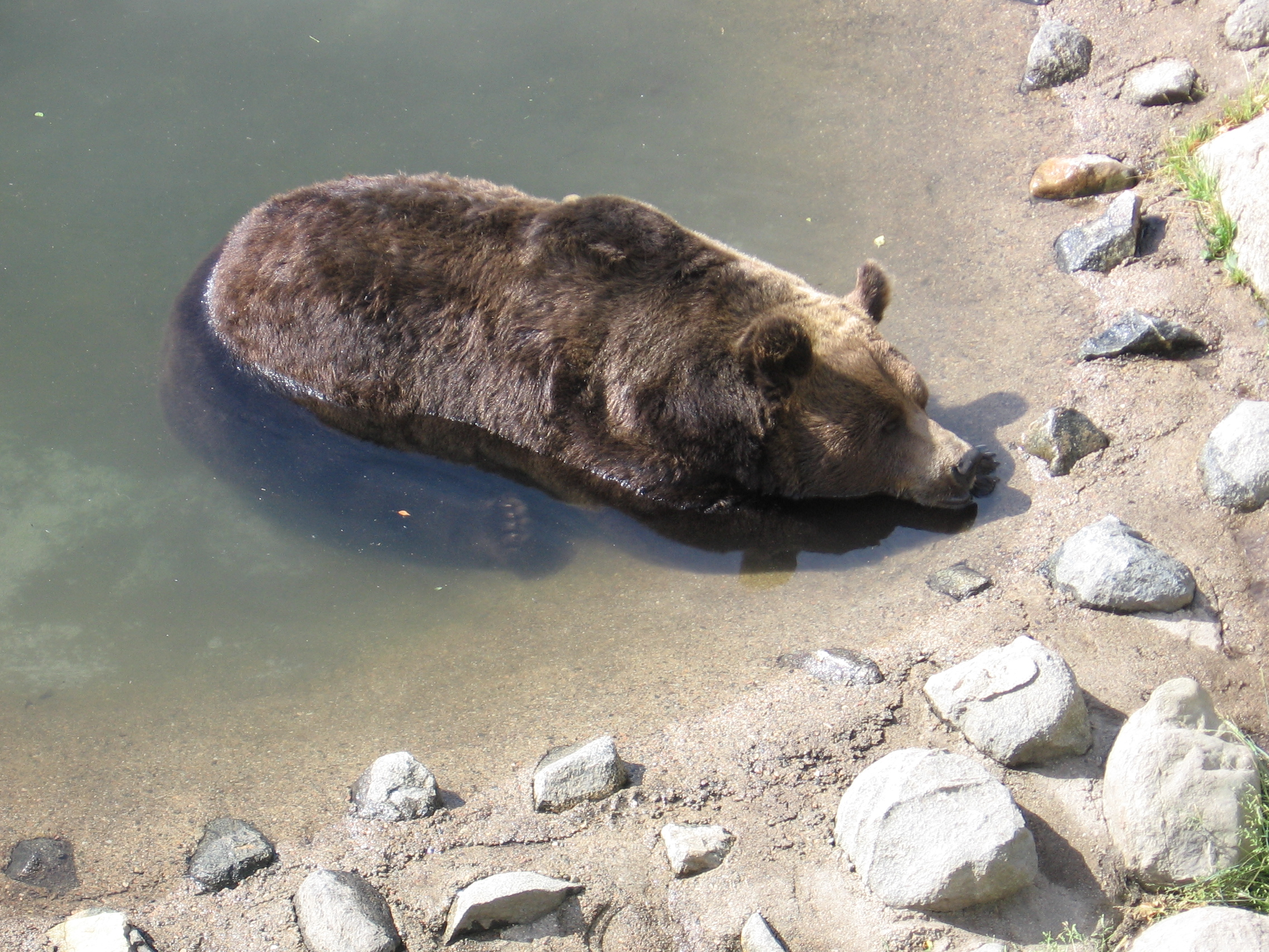 A male Eurasian Brown Bear (Ursus arctos arctos) named Palle at Ranua Zoo in Ranua, Finland